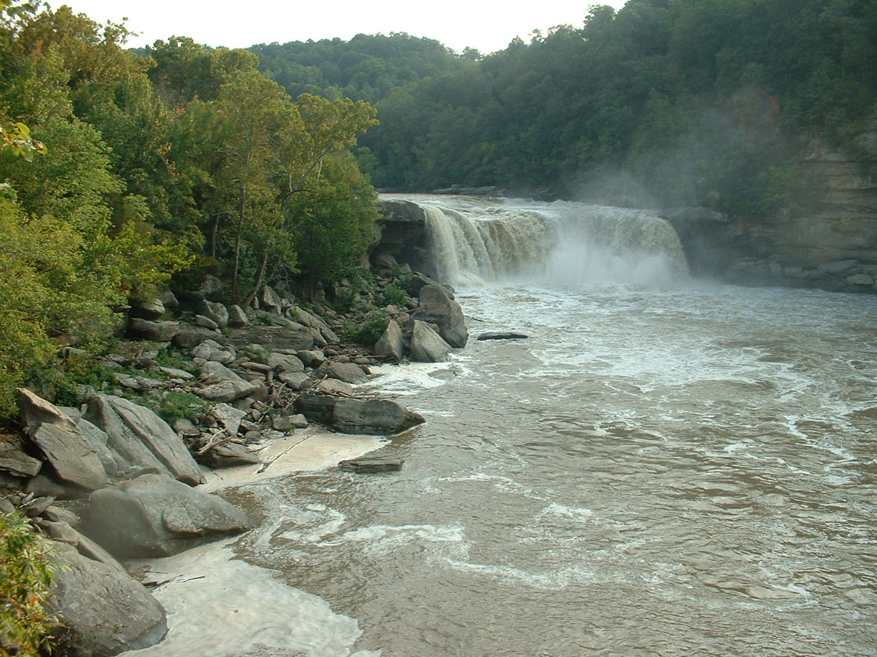 Cumberland Falls